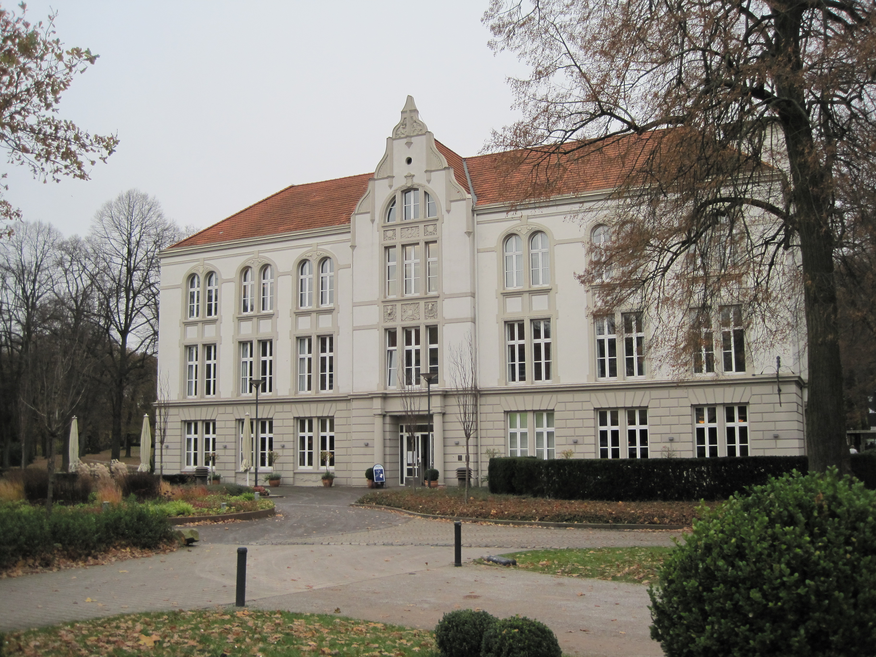 Historic Part of the Kurhaus Bad Hamm (Spa), the former Ostenschützenhof. Former Headquarter to the association of traditional City-Militia/Guard of the eastern City. (For further information about these associations in Germany, see Schützenverein in the German or English Wikipedia)